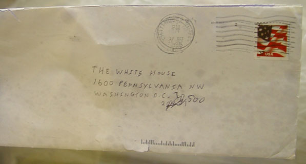 An image of the envelope addressed to the White House which was discovered on November 6, 2003 and contained the deadly poison ricin.